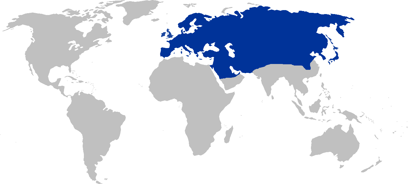 Small Tortoiseshell - appearance based on and